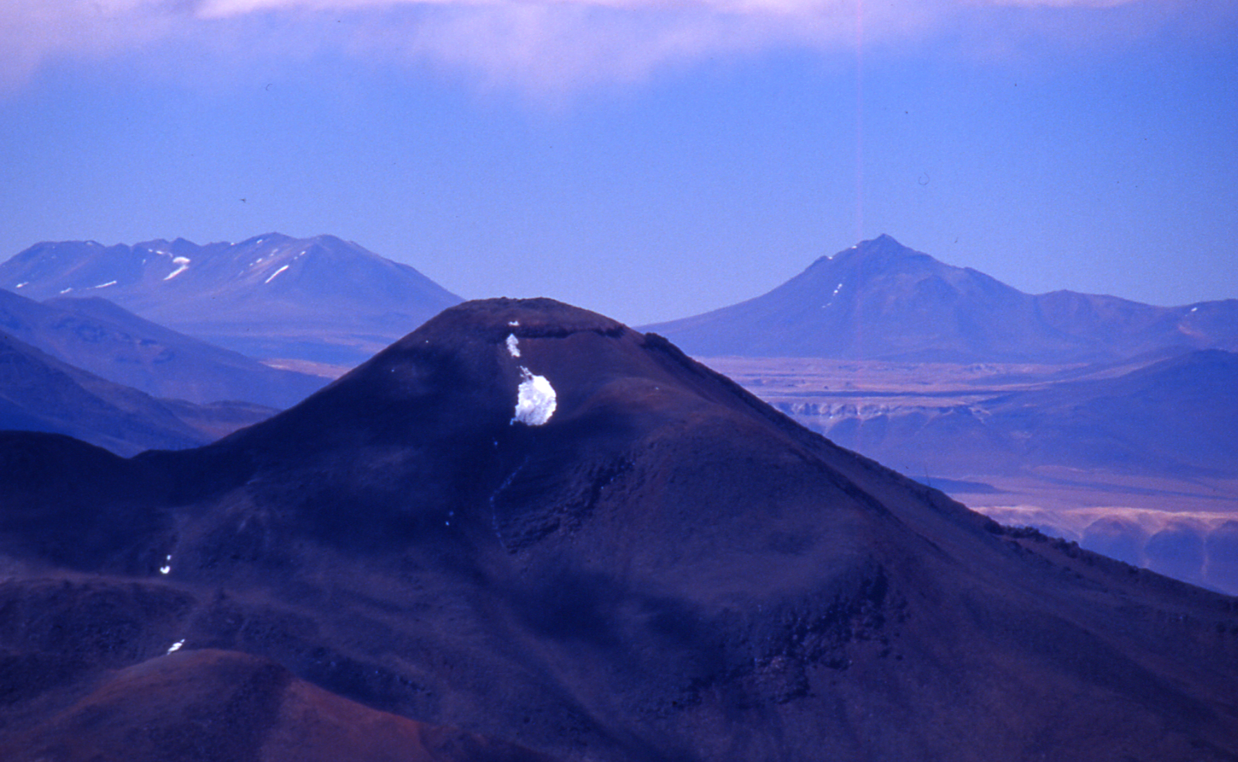 The Colorados and Vallecitos mountains from near Ojos del Salado